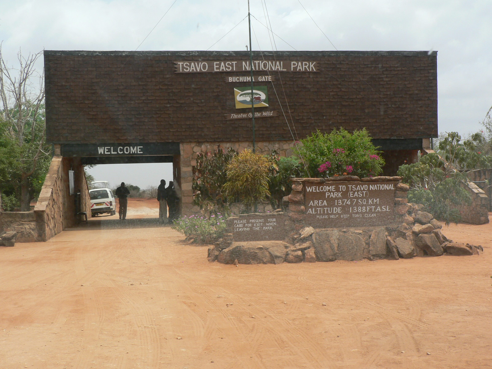 Buchuma Gate at Tsavo East